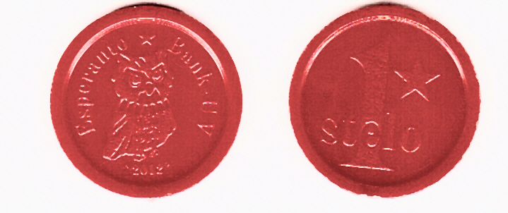 1-Stelo plastic coin. In the front of the coin appears owl, it is because this coin is the most used in the "gufujo", the place where people drink tea.Interlingua: Moneta plastic de 1 steloj (stellas). In le adverso del moneta appare un uluco, isto es proque iste moneta es le plus usate in le "gufujo", le loco ubi le personan bibe the.